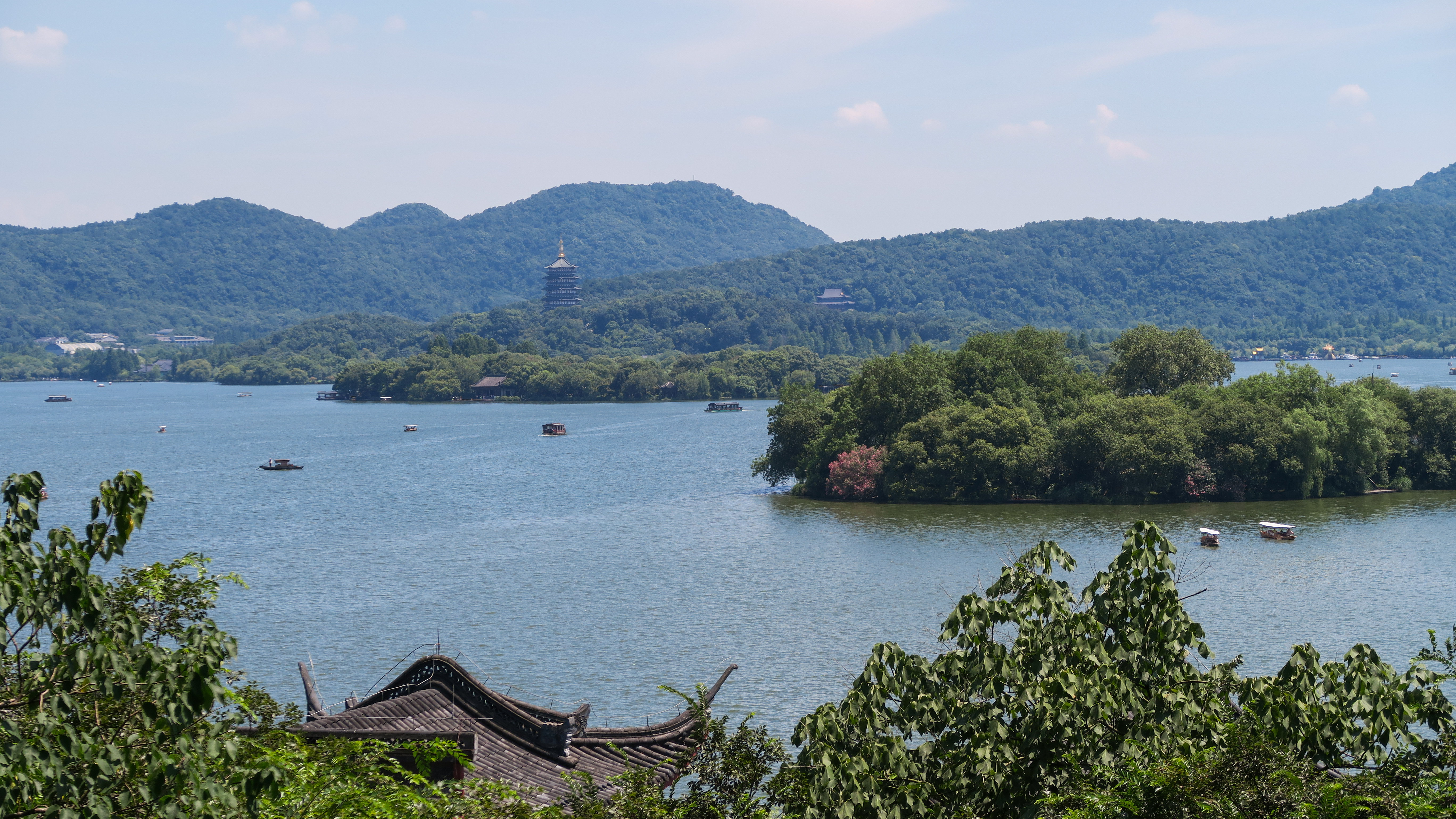 West Lake, Hangzhou: Ruan Gong Islet Submerged in Greenergy; Leifeng Pagoda; taken on Gushan